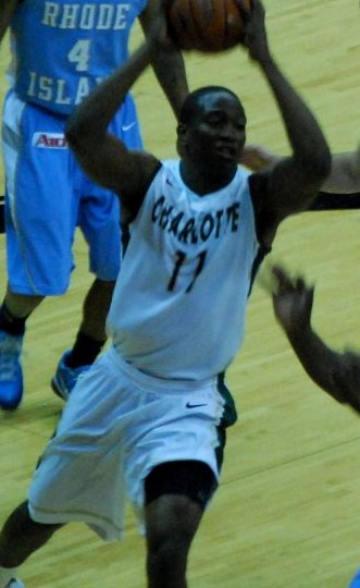 DeMario Mayfield